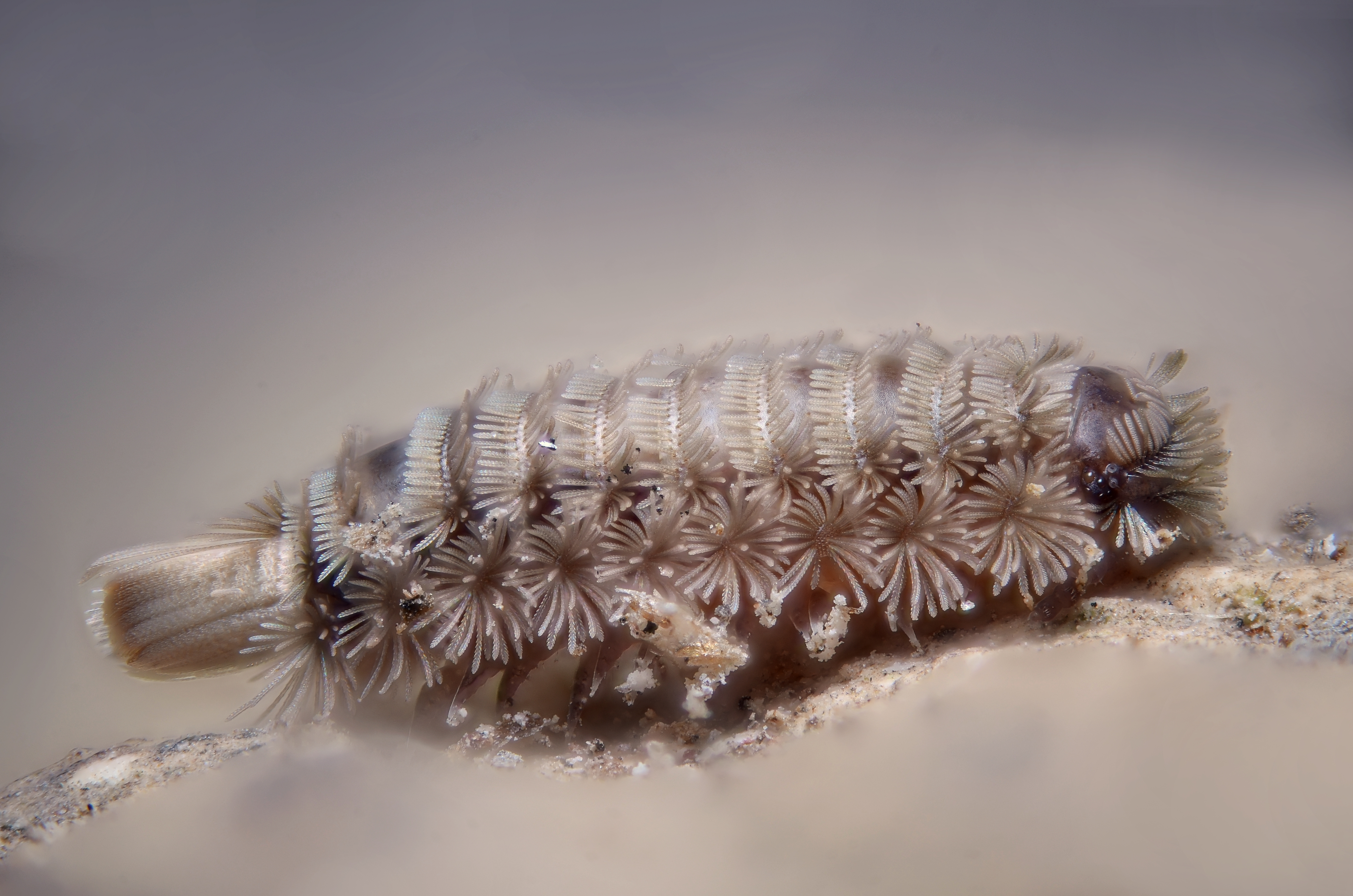 Side view of the European millipede Polyxenus lagurus. This very strange millipede is covered with detachable bristles that have the ability to entangle ants. This is a quite common species in Europe living under barks or into the ground. Real length : ~ 2 mm Focus stack of 202 pictures. Microscope objective (Nikon achromatic 10x 160/0.25) on bellow